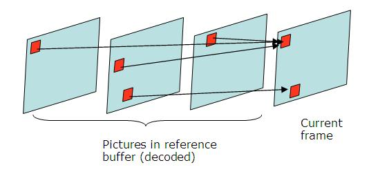 Multiple references in inter-frame video compression